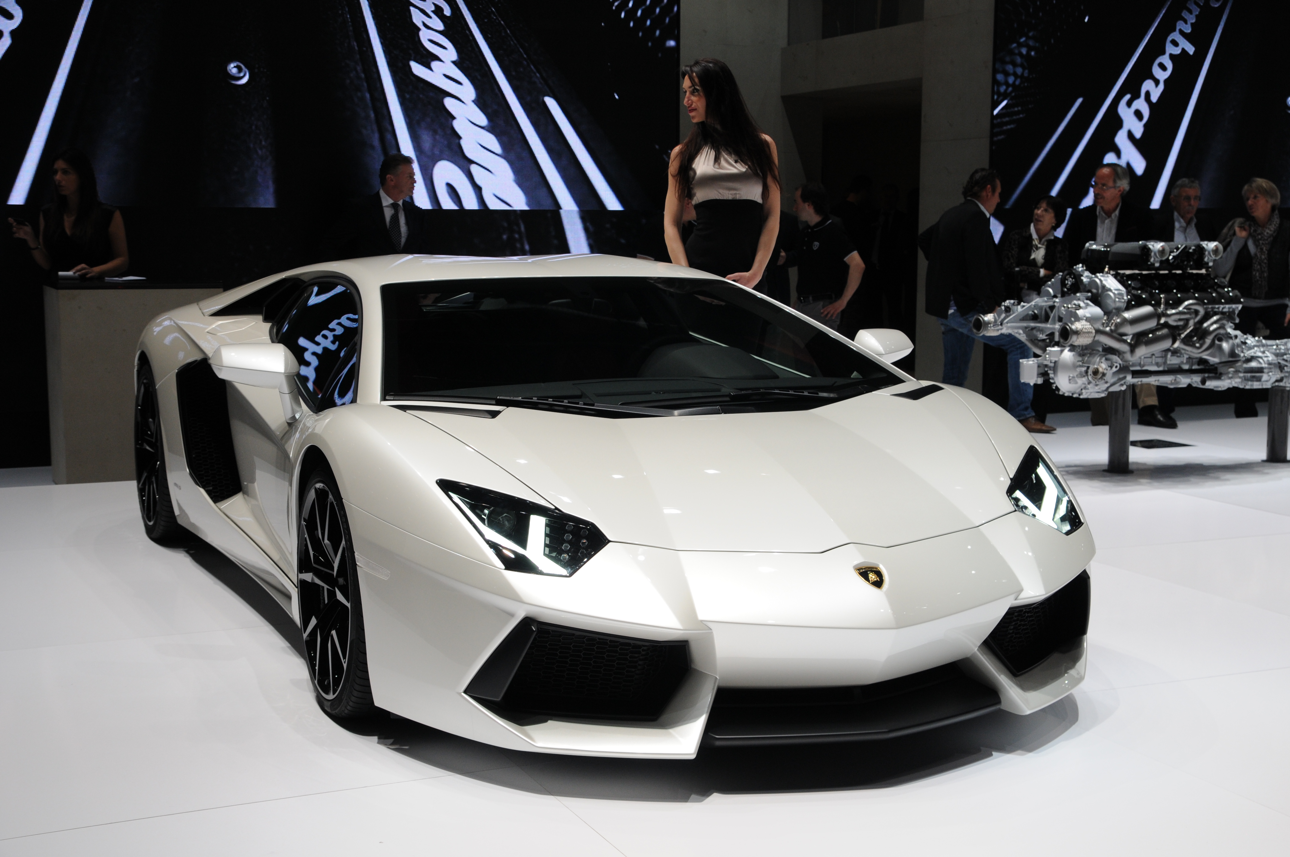 Geneva Motor Show 2012 (photos taken on the second press day)